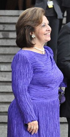 Wedding of Victoria, Crown Princess of Sweden, and Daniel Westling; Arrival of members for the Gouvernment and Swedish and foreign guests of hounour to the Riksdag's Gala Performance at Konserthuset. Katherine, Crown Princess of Yugoslavia and Alexander, Crown Prince of Yugoslavia